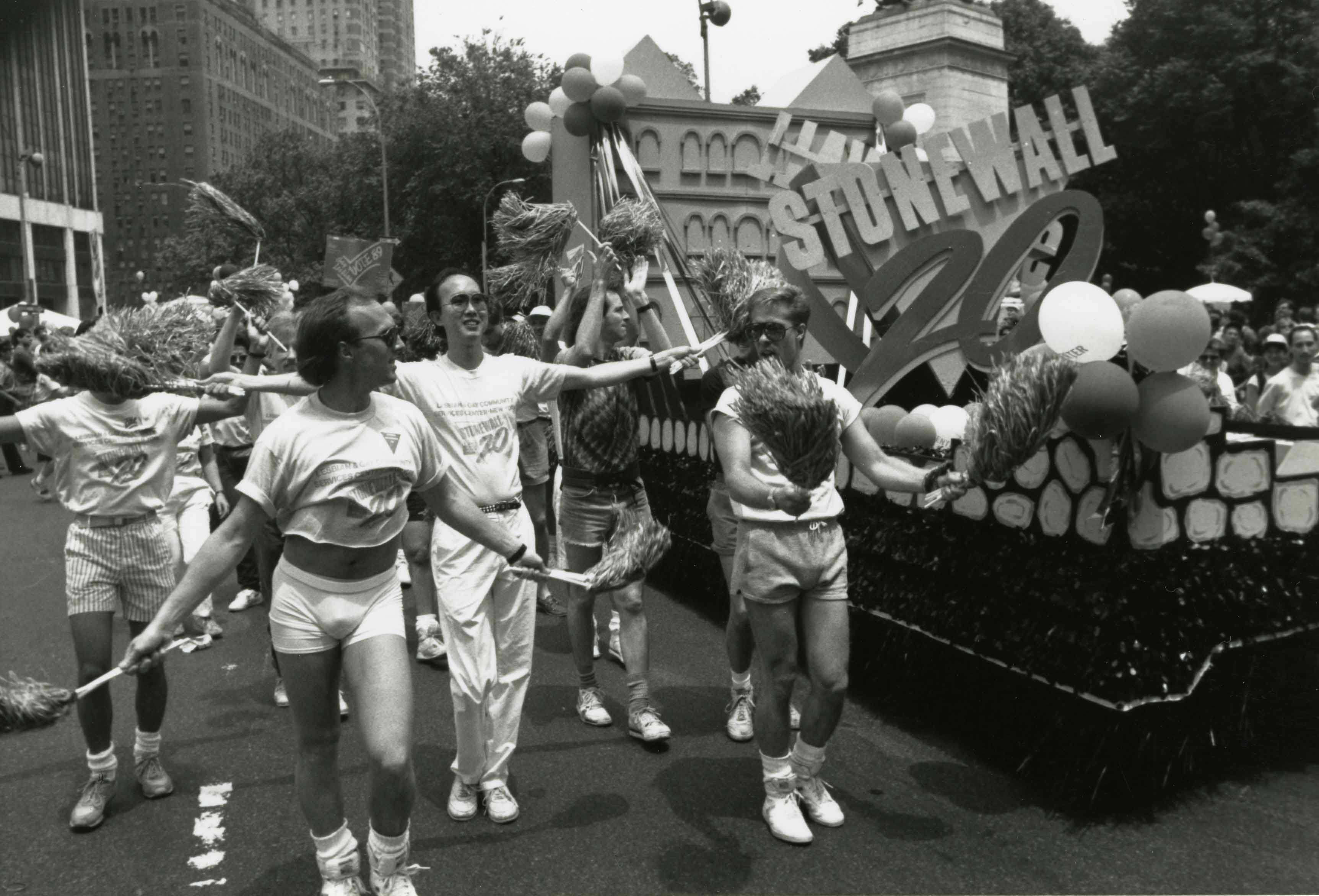 Gay Pride Parade, New York City, 1989, photograph by Joseph T. Barna, Collections of the Smithsonian’s National Museum of American History, Archives Center, Collection AC1146, Box 97